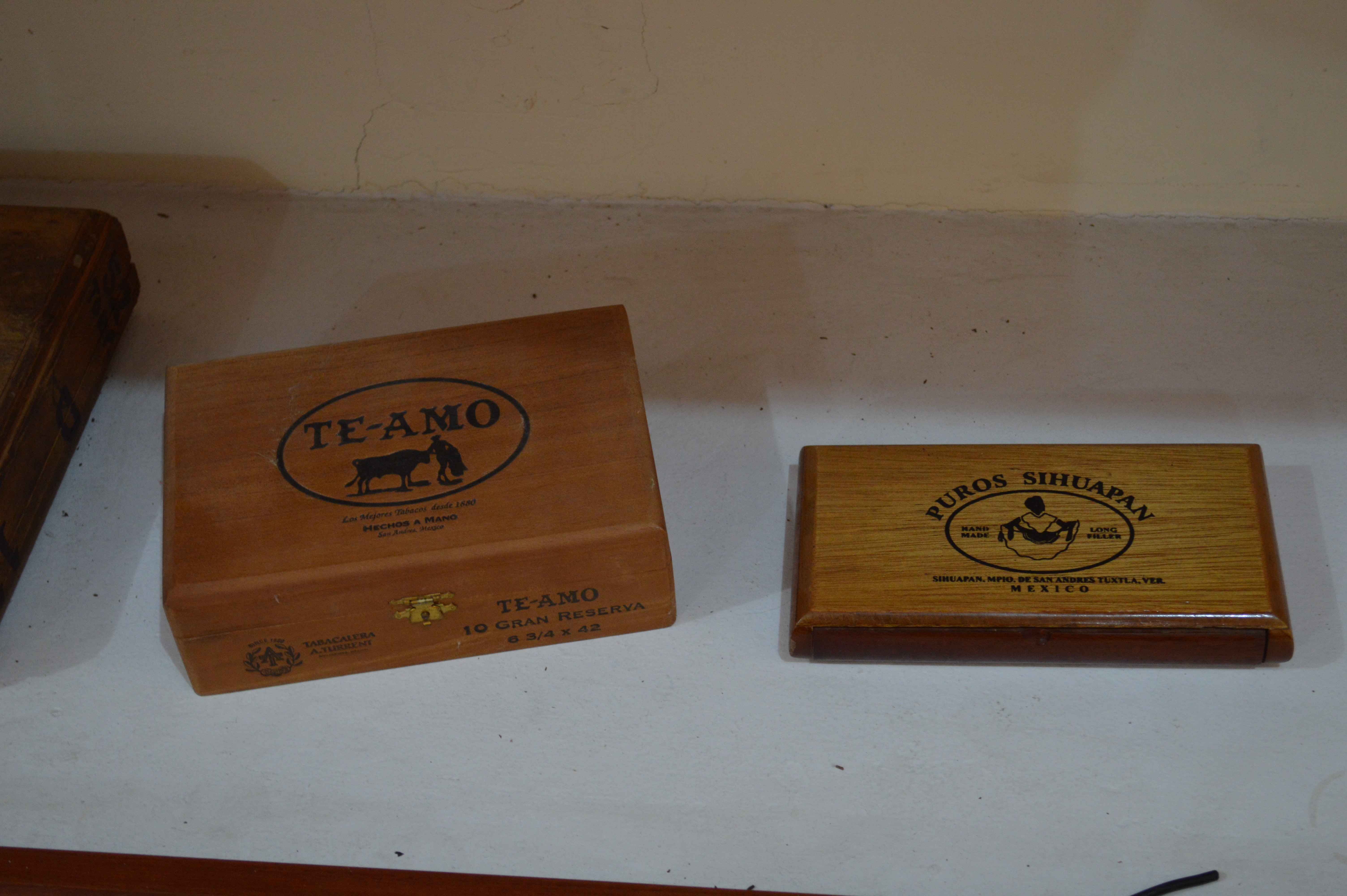 Cigar boxes at the Museo Regional de San Andres Tuxtla, Veracruz, Mexico